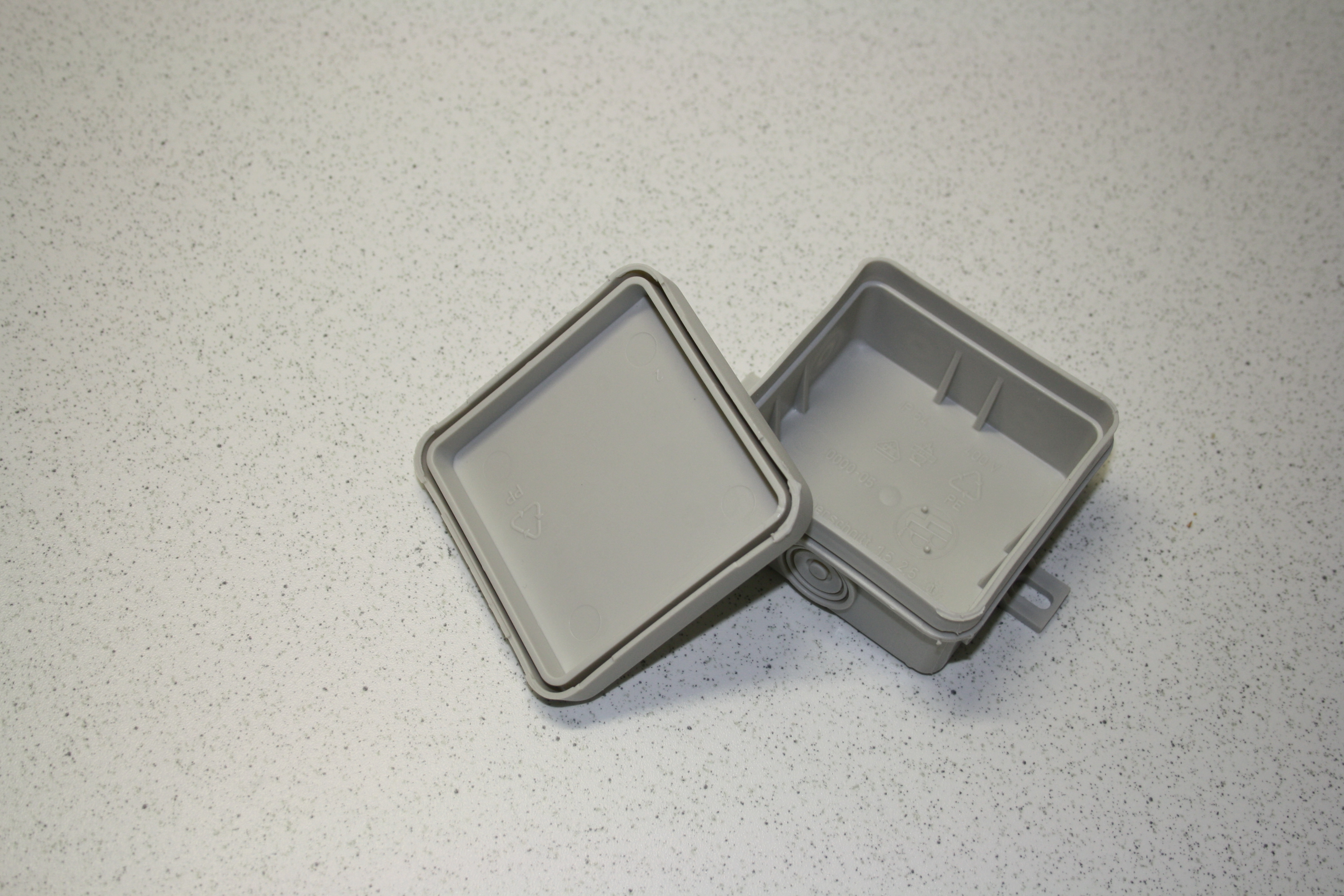 Surface mounting, electrical installation box, with snap-on lid.